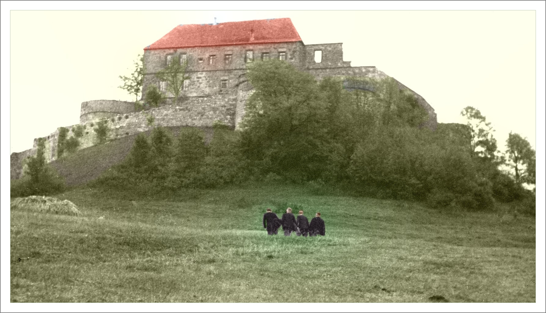 Giechburg bei Scheßlitz, Bamberg, Bavaria,1935, colorized photography